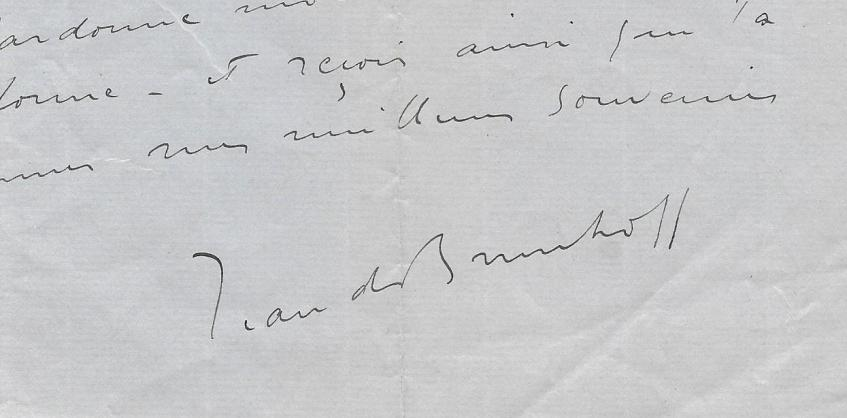 Signature of Jean de Brunhoff ( Babar)